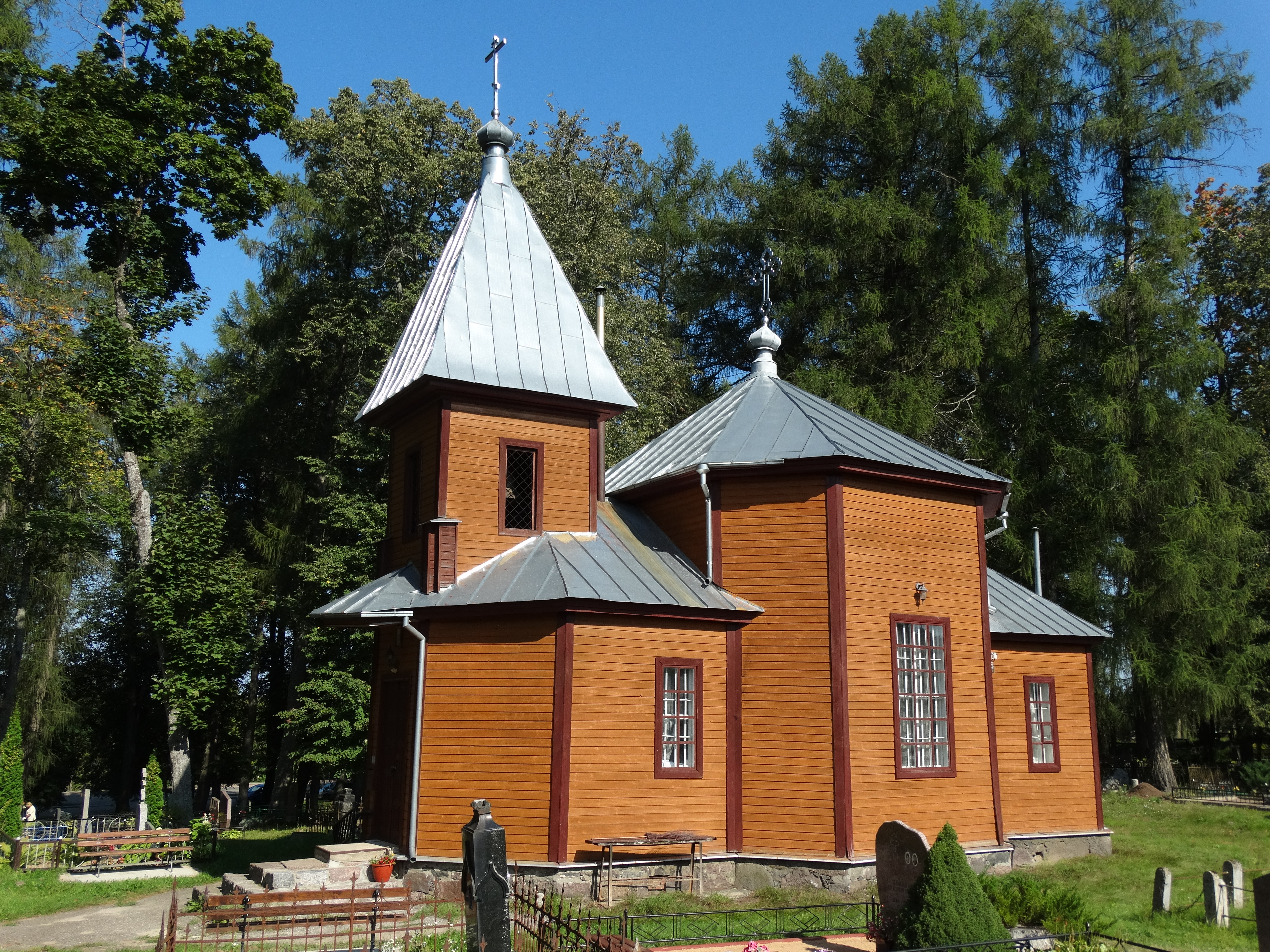 All Saints Orthodox church, Zarasai, Lithuania